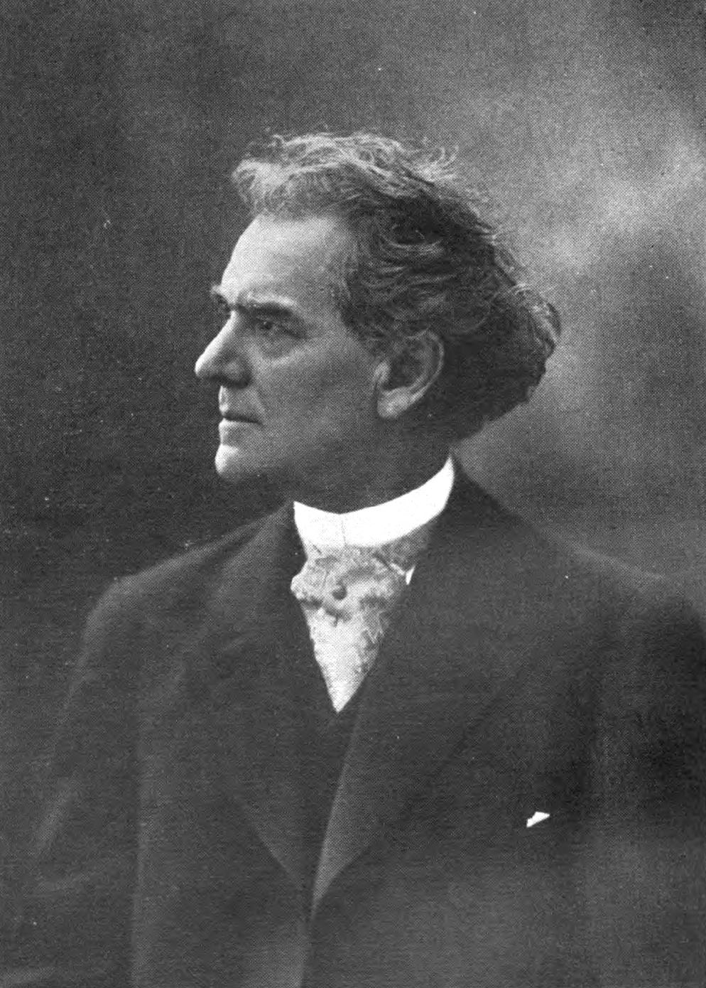 Portrait of German-American violinist, music teacher and composer Karl Feininger